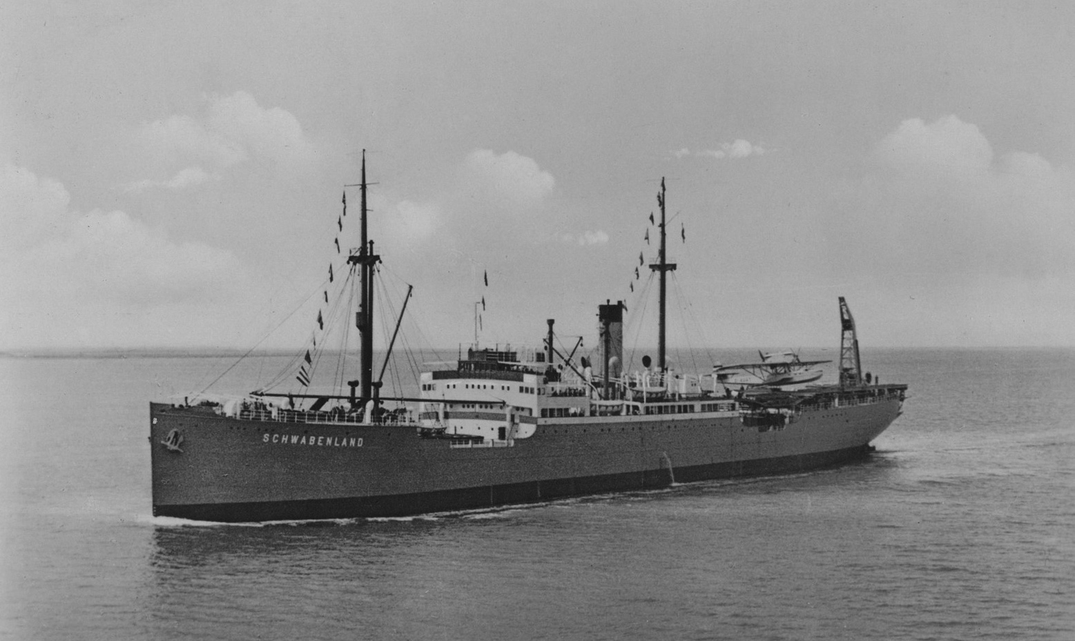 Picture of the German seaplane catapult ship MS Schwabenland, which brought the German Neuschwabenland expedition to Antarctica.